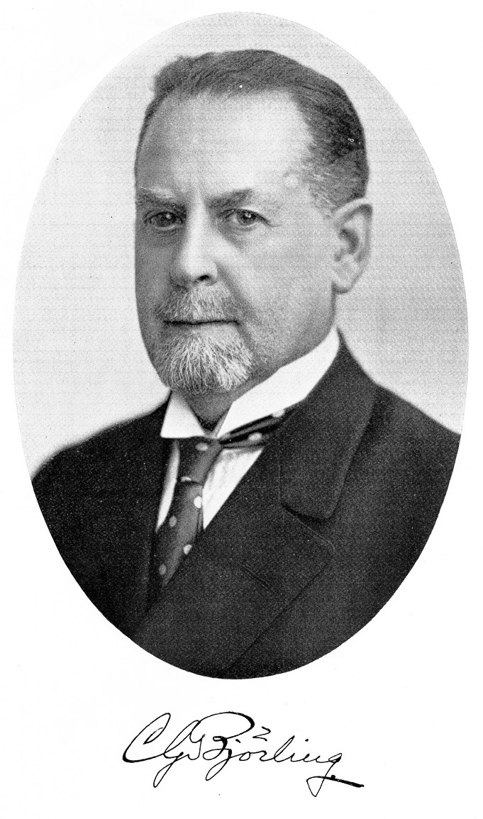 Carl Georg Björling (1870-1934), Swedish professor of private law at Lund University.